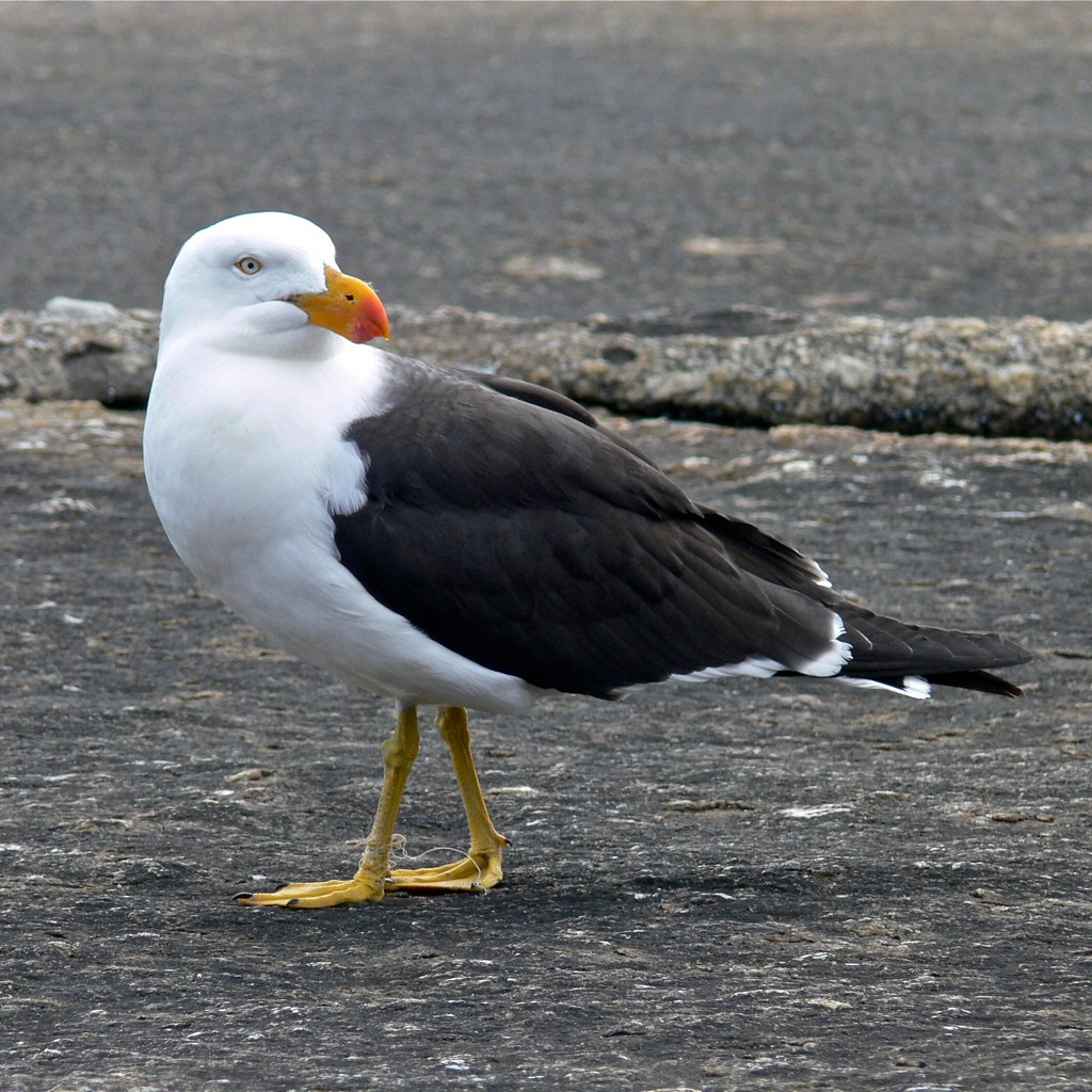 Adult Pacific Gull, Larus pacificus in breeding plumage at Squeaky Beach, Wilsons Promontory, Victoria, Australia.